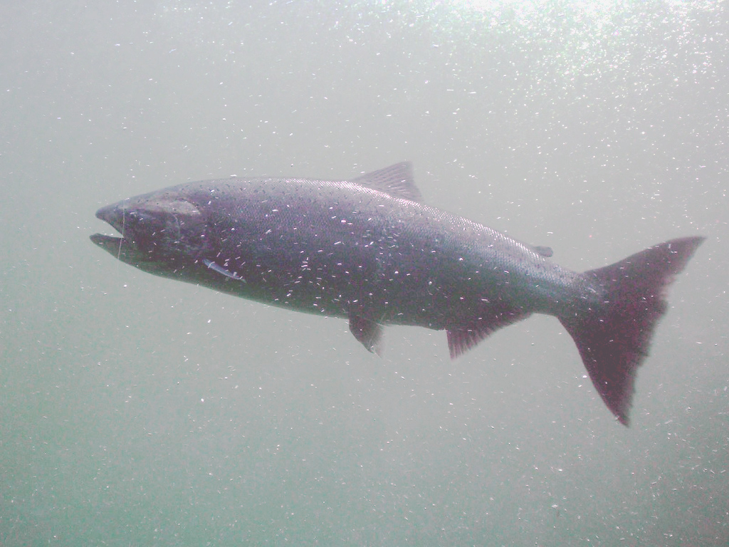 A Chinook or King salmon.